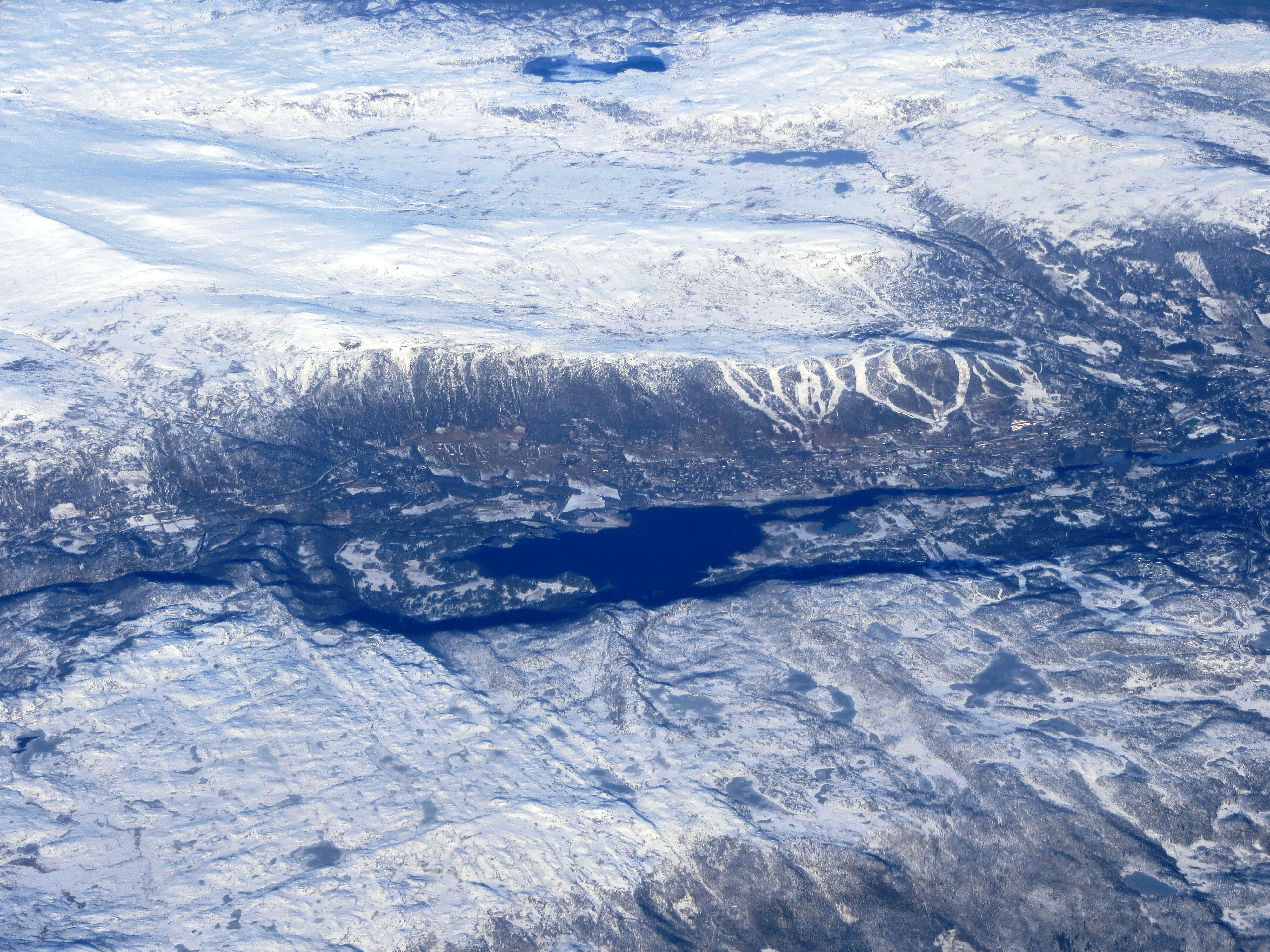 The mountaneous areas of central-southern Hol municipality, western Buskerud county, Norway